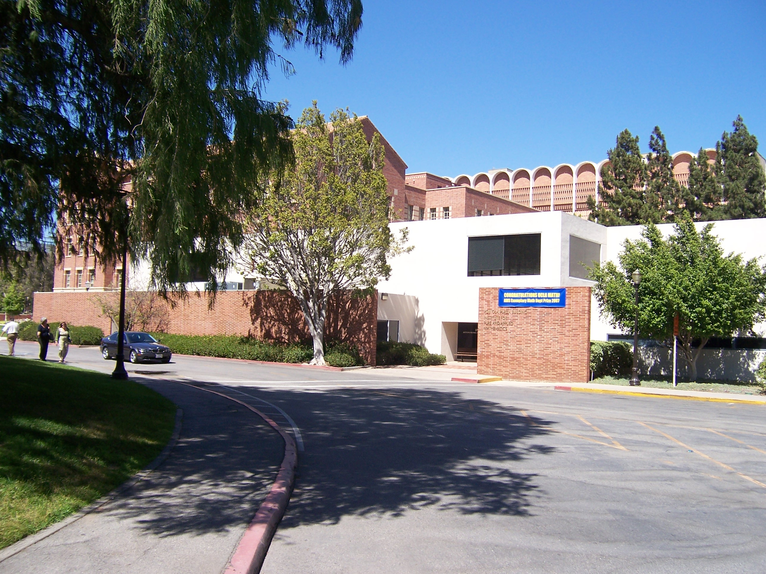 A shot of Institute for Pure and Applied Mathematics